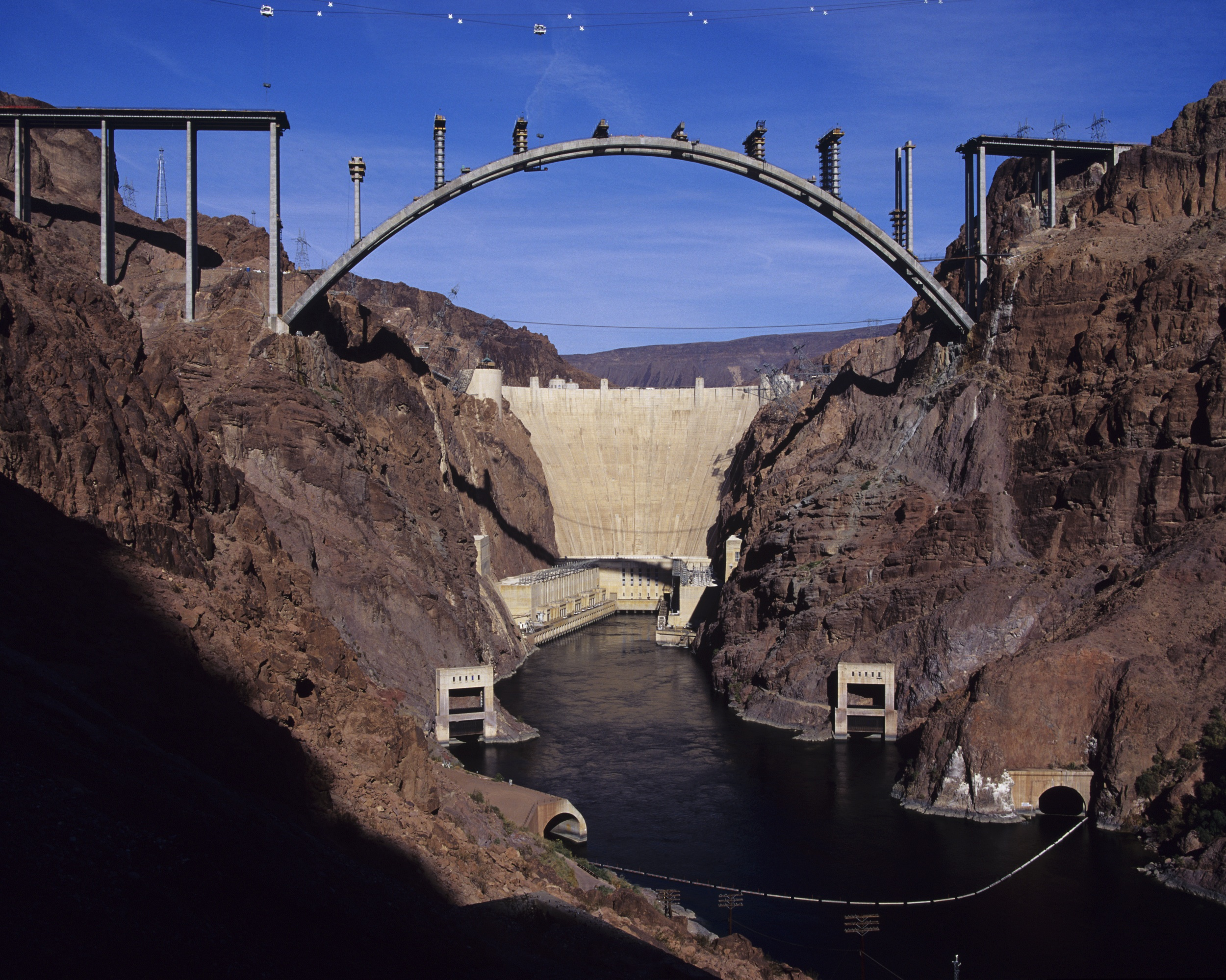 View of the CO River Bridge (Mike O'Callaghan-Pat Tillman Memorial Bridge) from downstream of the Hoover Dam. On the Nevada approach, piers 2, 3, 4, and 5 are visible. On the Arch, Pier 6 is erected to segment 13, Piers 7, 8, 9, 10, 11 and 12 are completed with the falsework for their pier caps spanning between the left and right columns, and Pier 13 is completed with the climbing scaffolding attached at the bottom of the left column.